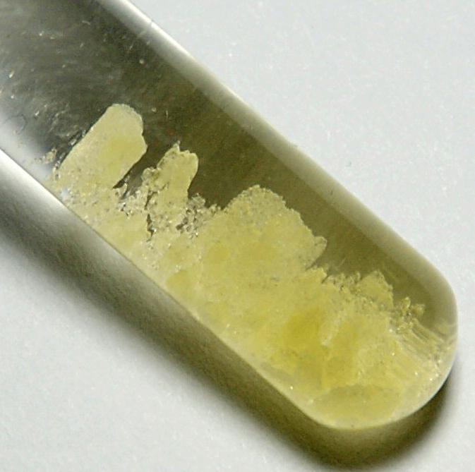 Yellow samarium sulfate, Sm2(SO4)3. Vial diameter 1 cm.